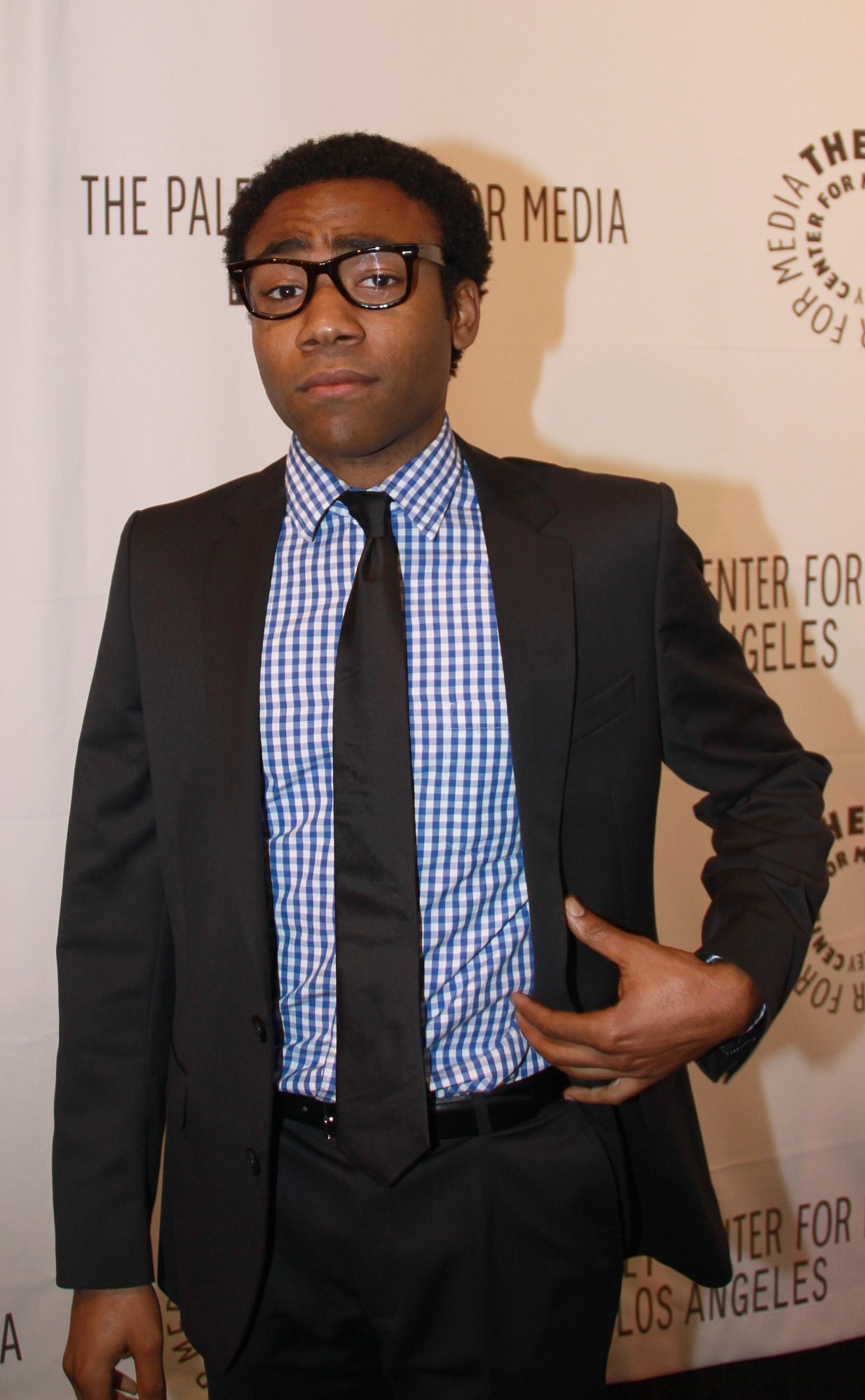 American actor and comedian Donald Glover at PaleyFest2010's "Community" night at the Saban Theatre on Wednesday, March 3rd, 2010.